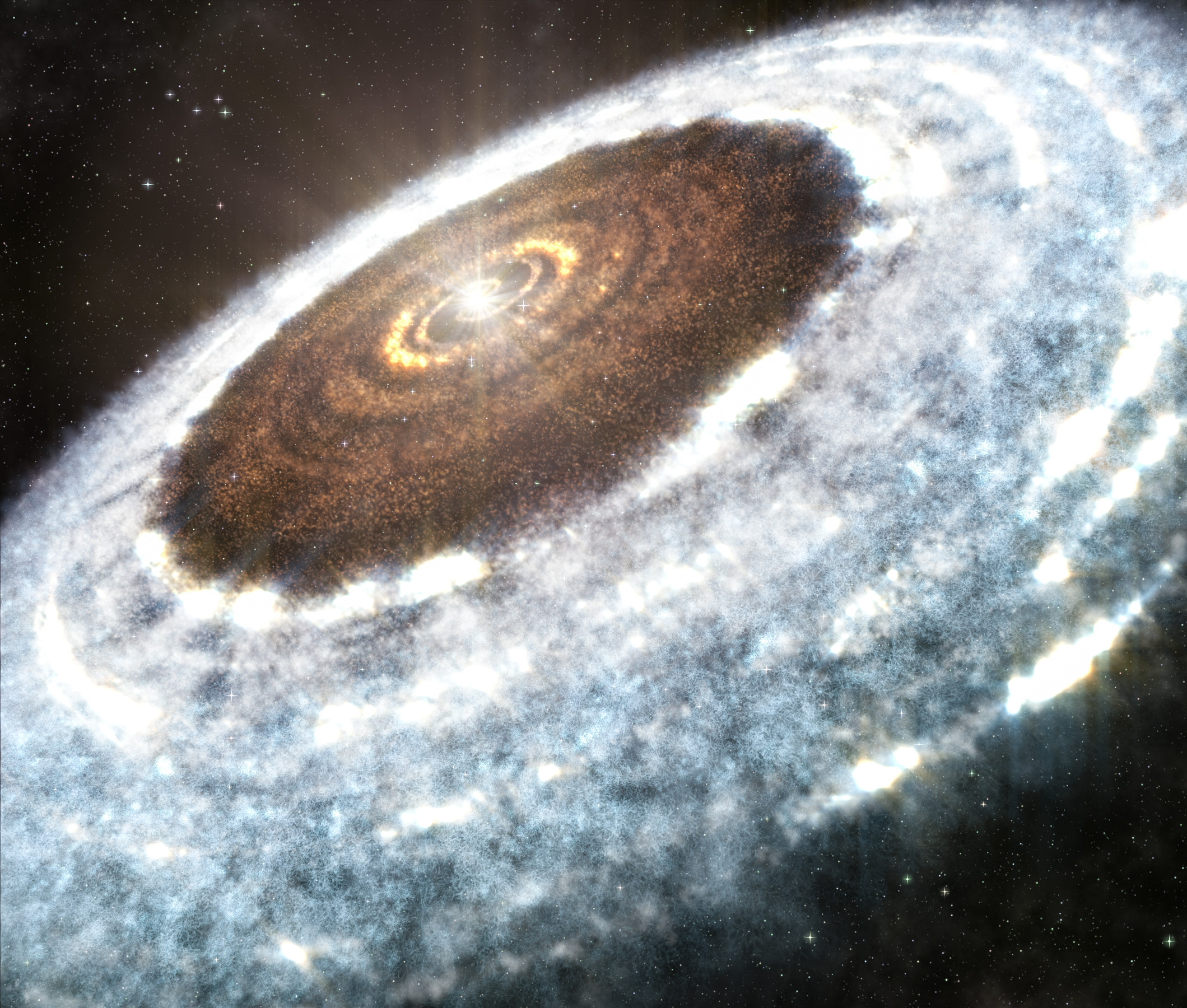 This artist’s impression of the water snowline around the young star V883 Orionis, as detected with ALMA.